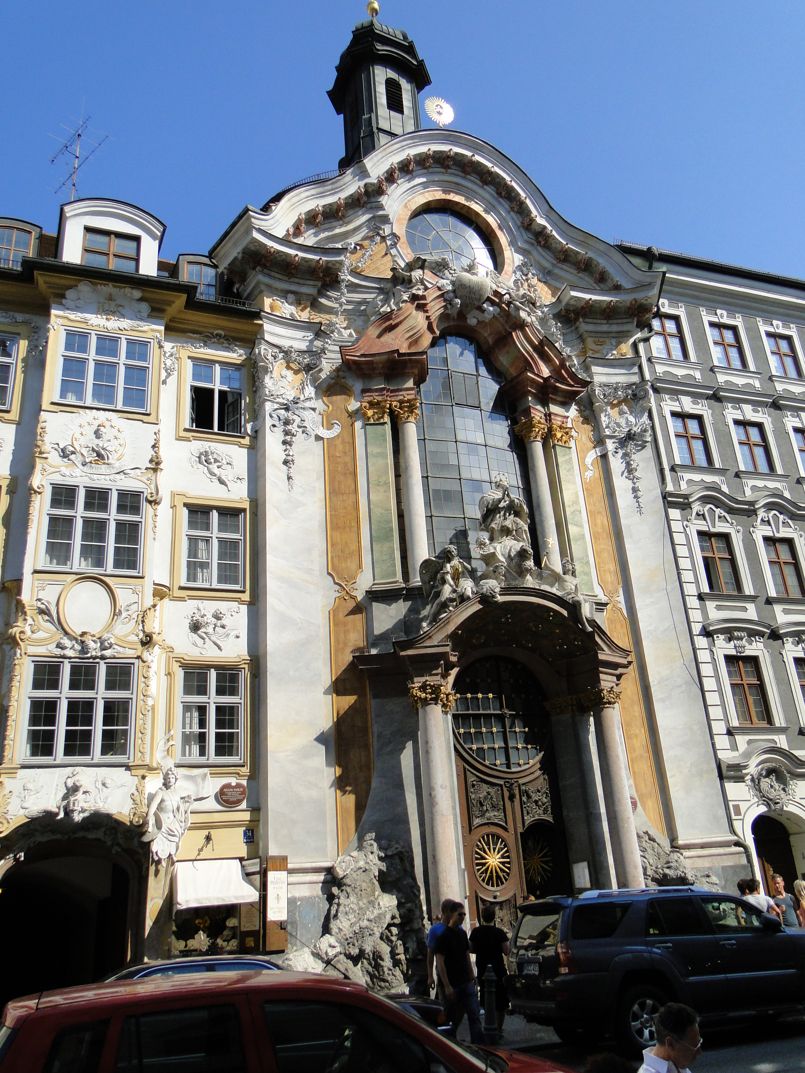 Church of St. John of Nepomuk in Munchen